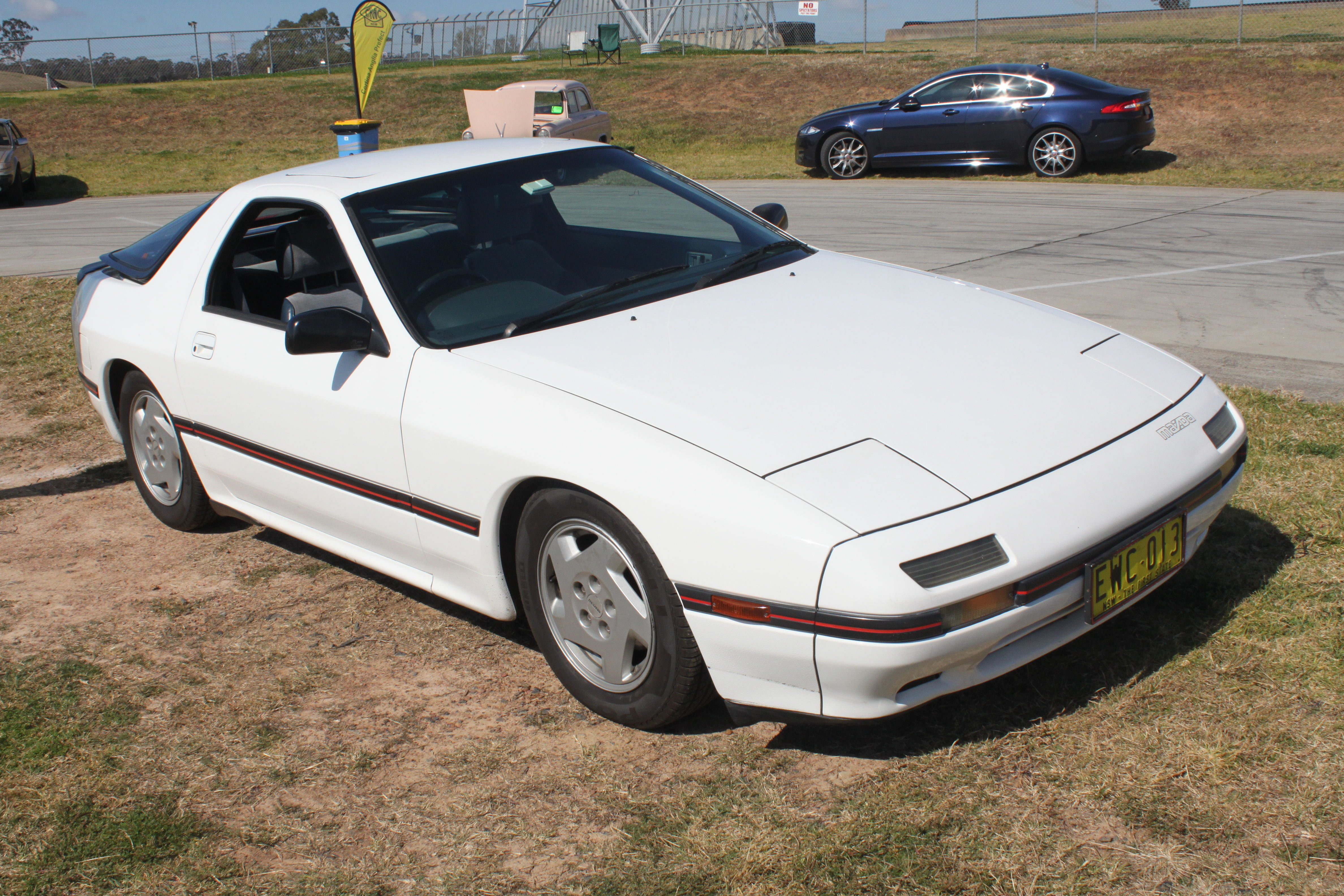 Shannon's Classic, Eastern Creek, NSW August 2015